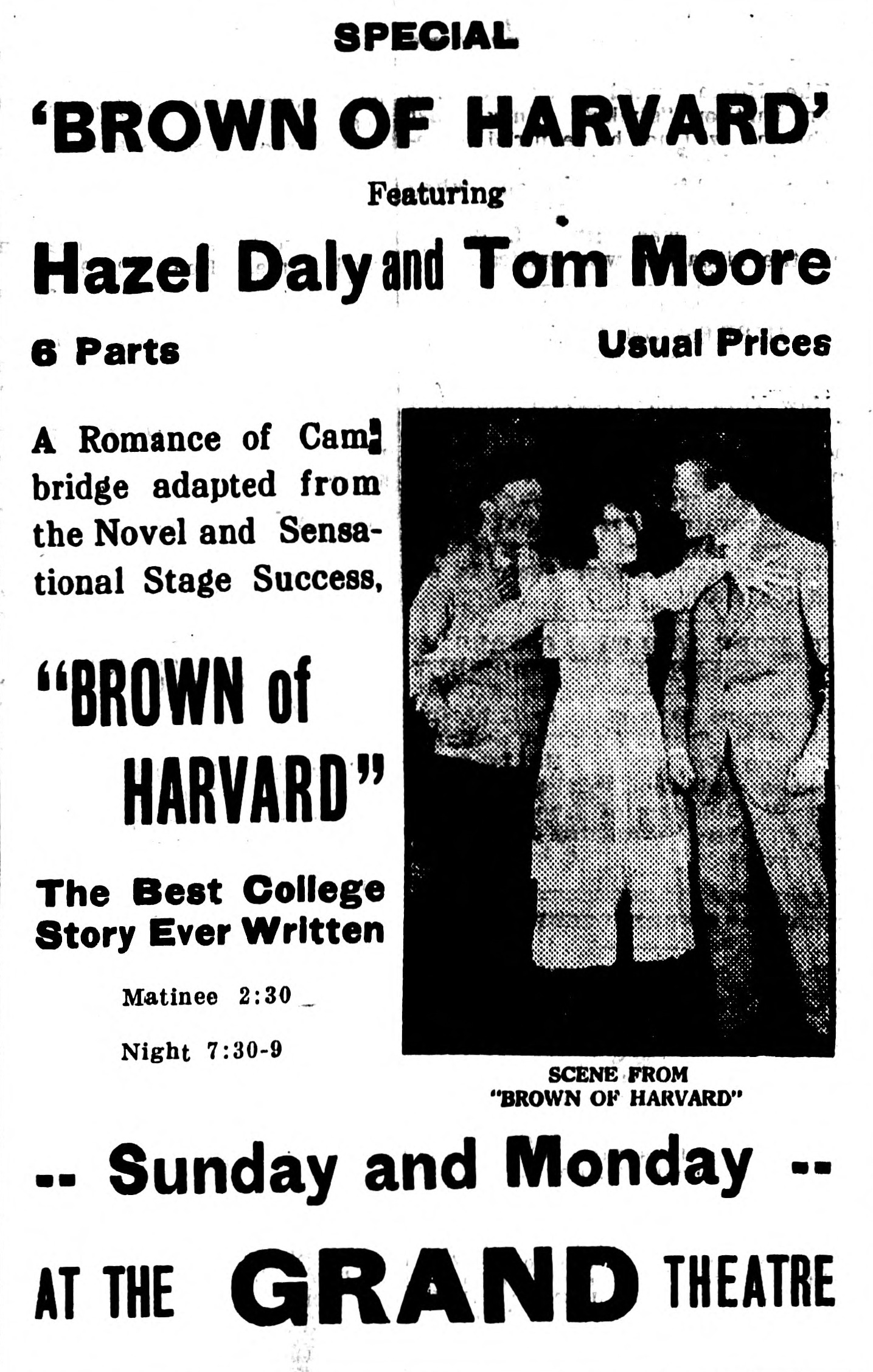 Brown of Harvard, also known as Tom Brown at Harvard, is a 1918 film based on the 1906 Broadway play Brown of Harvard by Rida Johnson Young and the novel by Young and Gilbert Colman. The Washington State University football team and its coach, William "Lone Star" Dietz, participated in filming while in Southern California for the 1916 Rose Bowl. This is a newspaper advertisement.